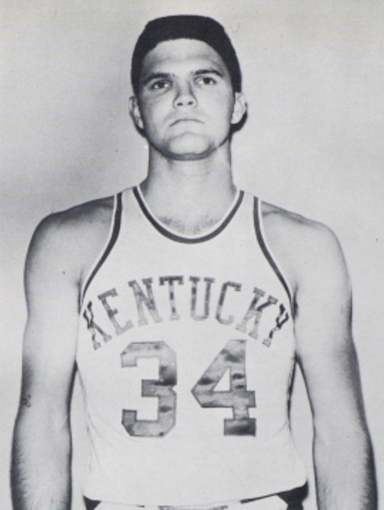 University of Kentucky basketball player Ed Beck from the 1958 “Kentuckian” yearbook